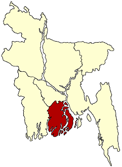 Locator map of Barisal Division in Bangladesh